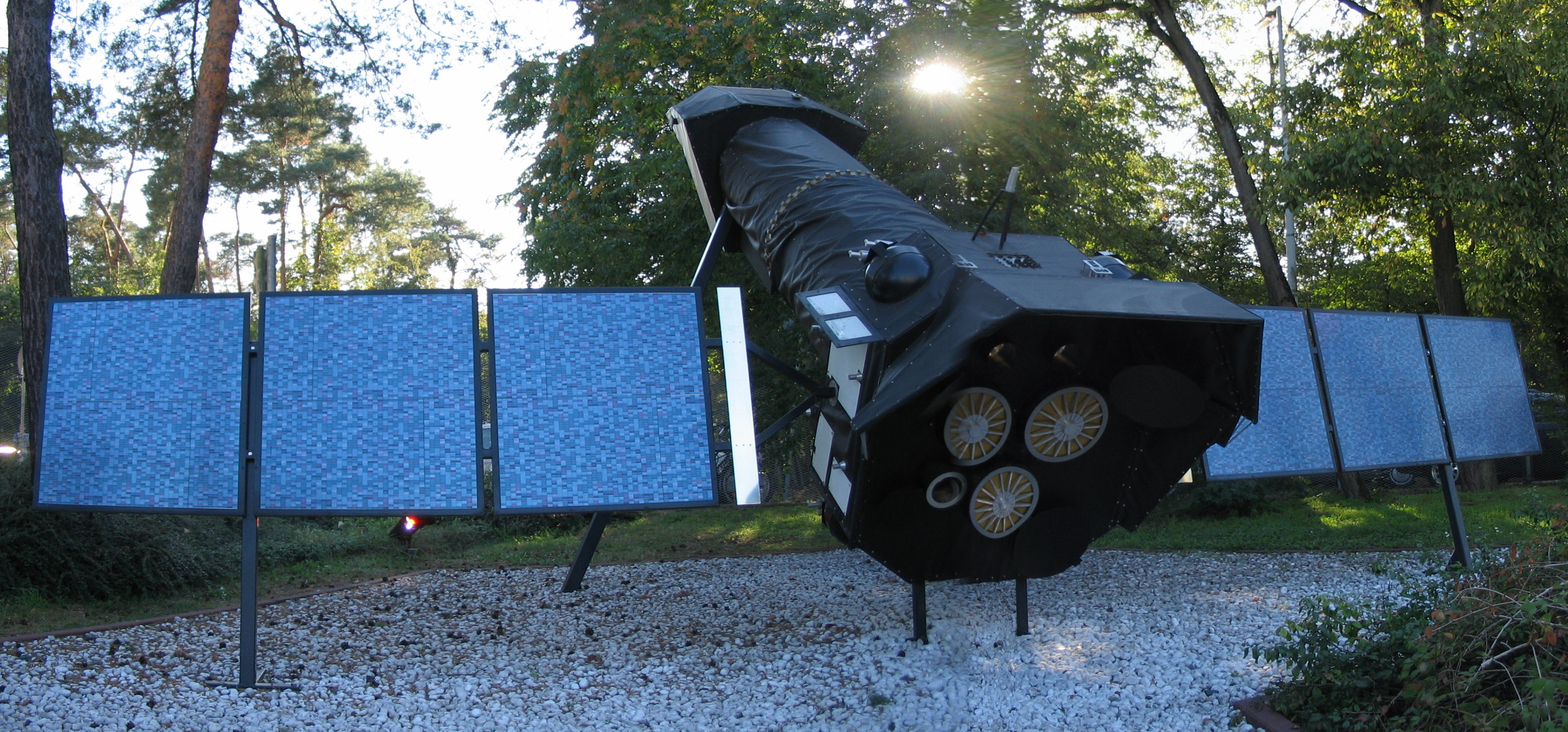 Mock-up of thew X-ray satellite XMM-Newton at ESOC, Darmstadt